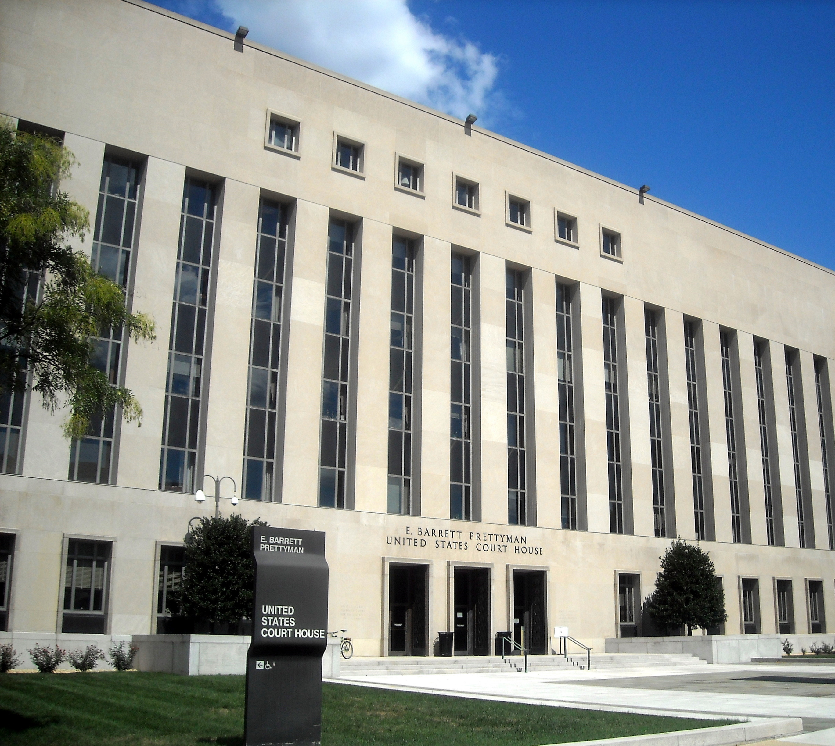 The E. Barrett Prettyman Federal Courthouse located at 333 Constitution Avenue, NW in the Judiciary Square neighborhood of Washington, D.C. The building is listed on the National Register of Historic Places and is a contributing property to the Pennsylvania Avenue Historic District.